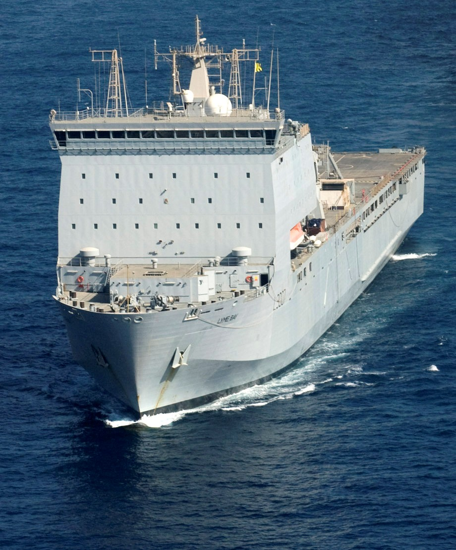 The Royal Navy fleet auxiliary ship Lyme Bay (L 3007).